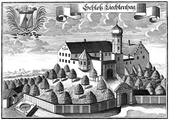 Castle Lichtenhaag, Lower Bavaria